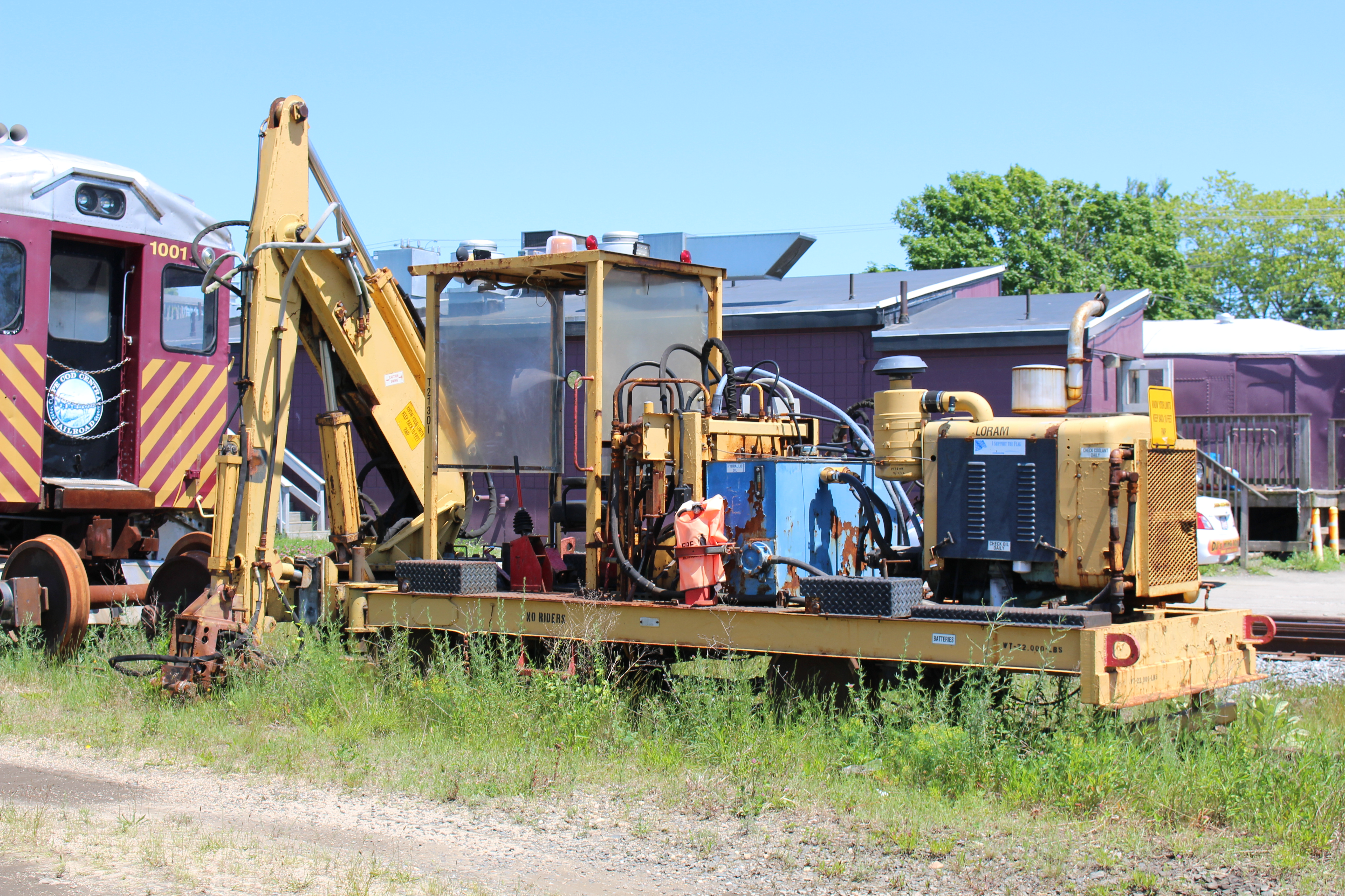 Rail tie placer in Hyannis.